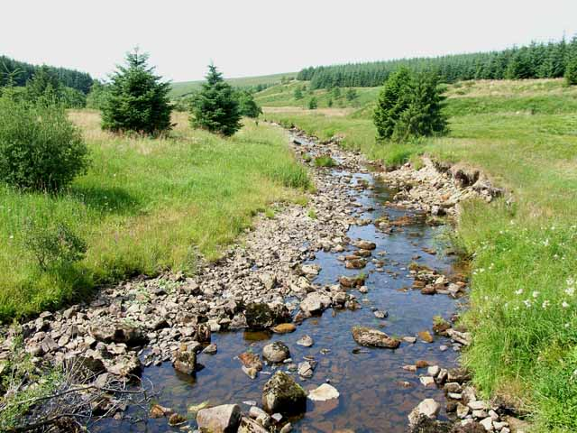 Kershope Burn. A short way downstream from Scotch Kershope. The Anglo-Scottish border runs along the stream - England to the left, Scotland to the right.